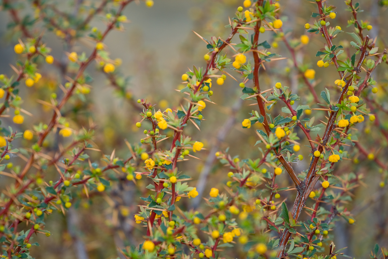 Calafate Bush (Berberis microphylla), Argentina